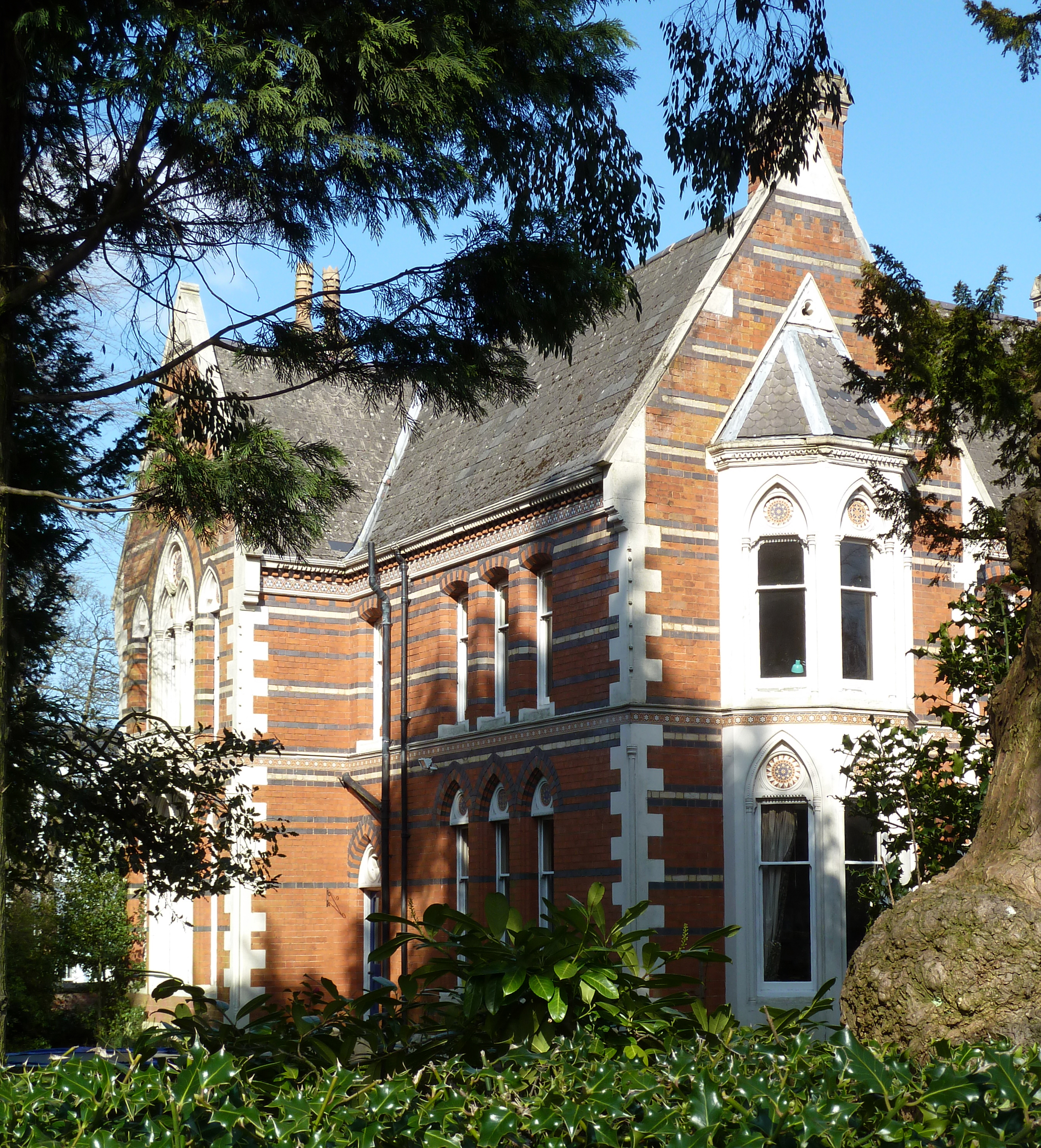 Shenstone House in Edgbaston, Birmingham; designed by John Henry Chamberlain in a Ruskinian gothic style and built in 1855; the first High Victorian building within the city.